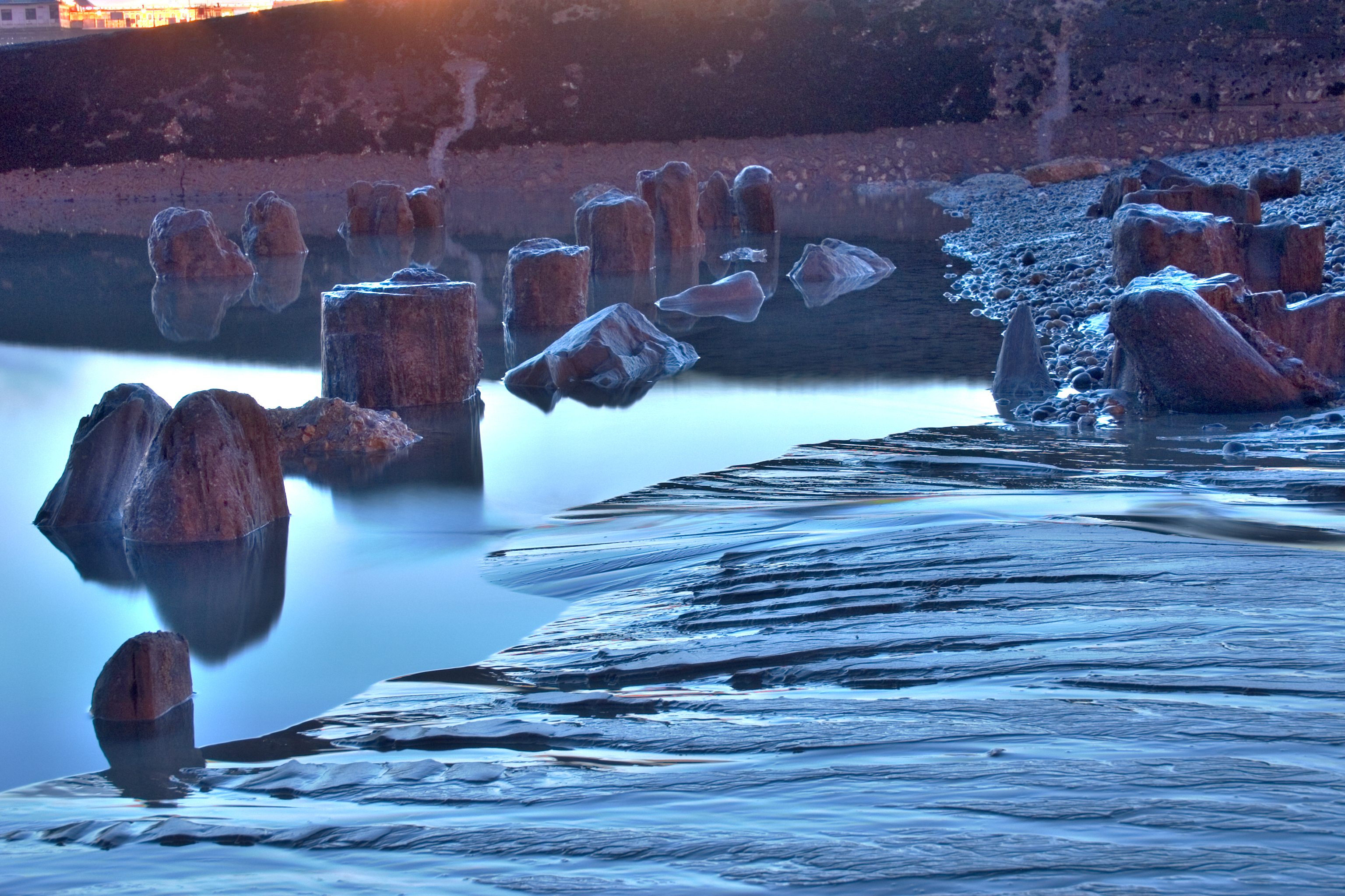 Oak foundation piles of the Royal Suspension Chain Pier Brighton exposed at very low tide. Some masonry blocks that may be Purbeck stone (a limestone that can be polished like marble) from the promenade can also be seen.